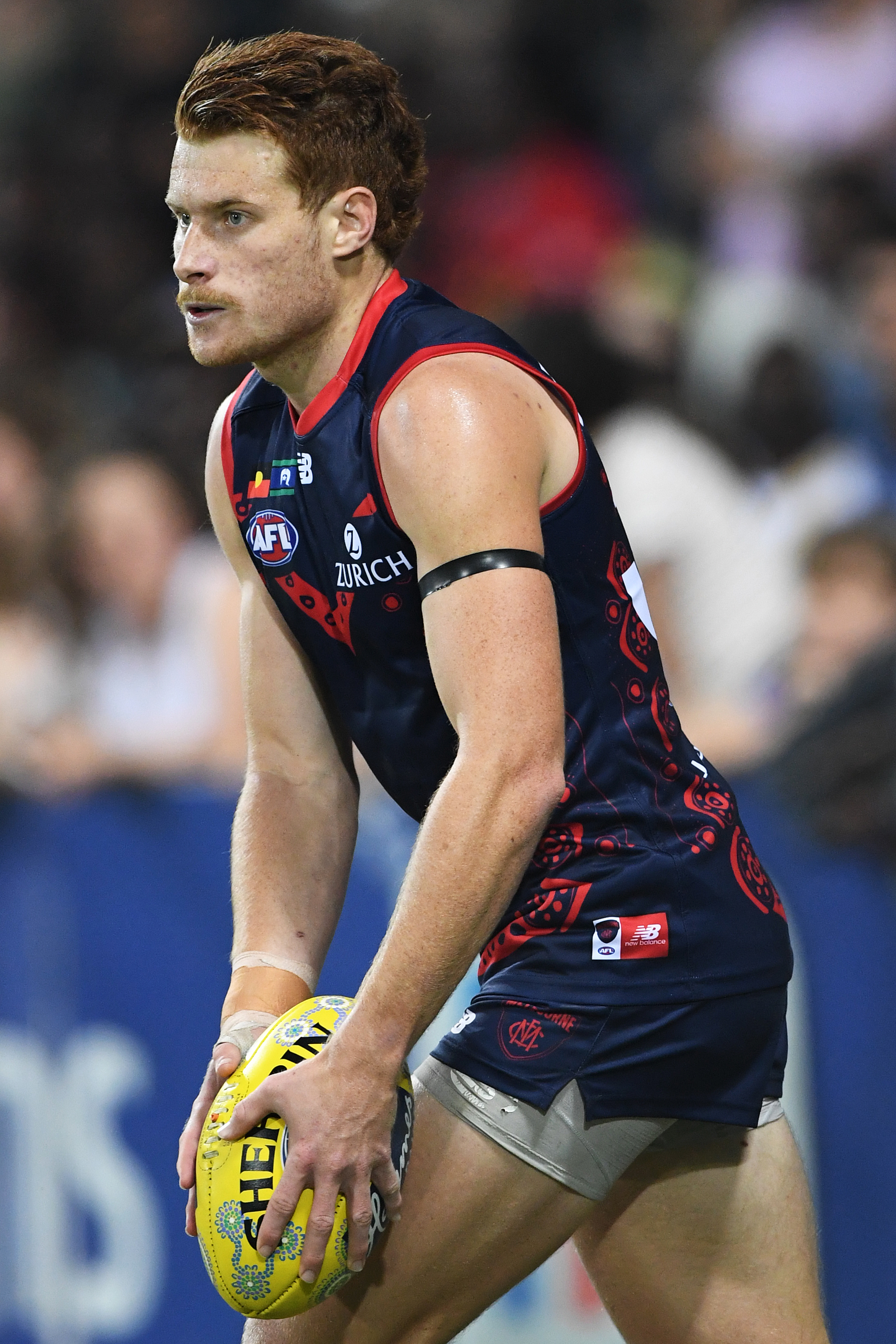 Oskar Baker of Melbourne during the 2019 AFL round 11 match between Melbourne and Adelaide at TIO Stadium on Saturday, 1 June 2019 in Darwin, Northern Territory.